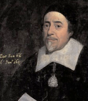 Bust portrait of Seventeenth century gentleman with moustache and beard, dressed as a puritan